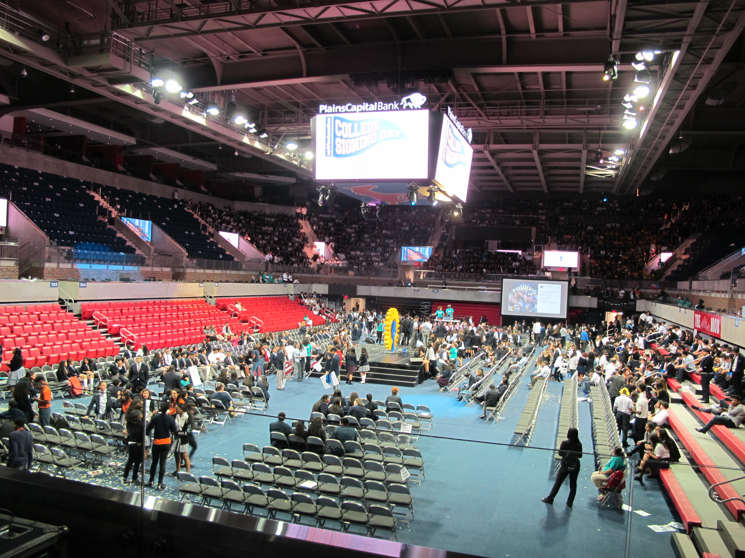 SMU's Moody Coliseum Interior Shot